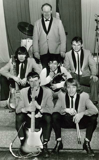 A black and white photograph of Werner with a guitar as one of the band members of the 'Rocking Apaches'